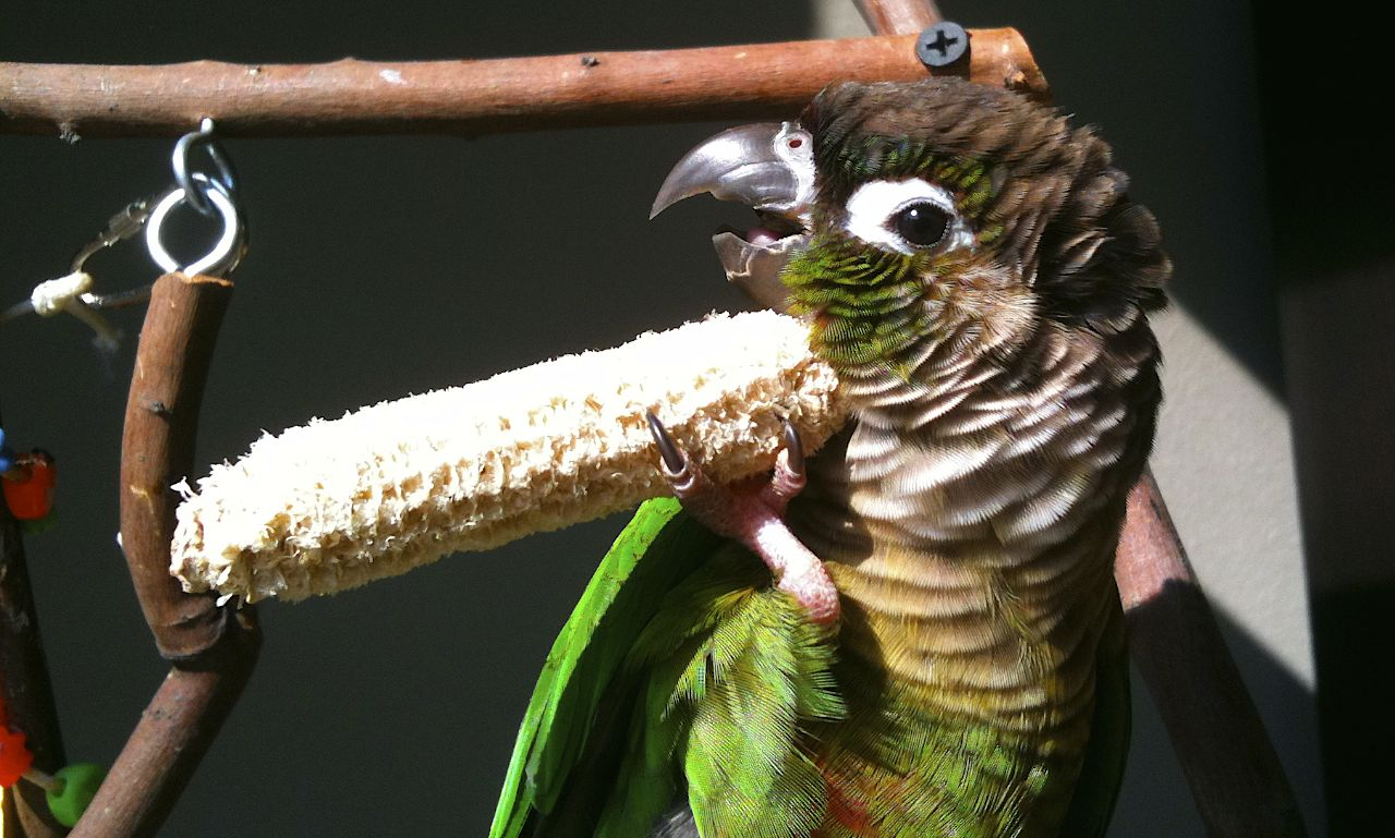 A pet Green-cheeked Parakeet (also known as Green-cheeked Conure) in Houston, Texas. It is holding a corn cob in its foot. This photo was taken with an iPhone 3GS.